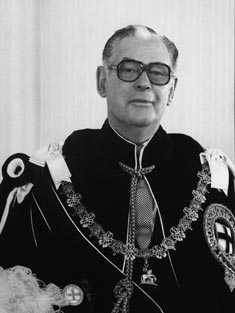 Sir Keith Holyoake, wearing the regalia of a Knight of the Garter, circa 1980